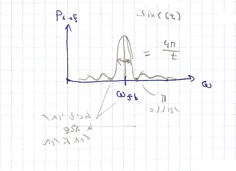 Sinc(z) resonance of time-dependent perturbation theory